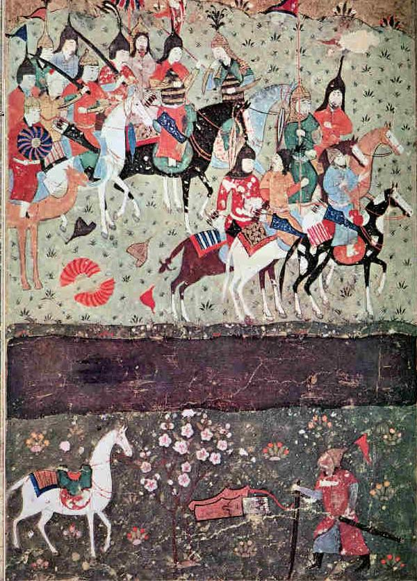 Chingis Khaan and his retinue watch in amazement as the Khorezmshah Jalal ad-Din prepares to cross the Indus.